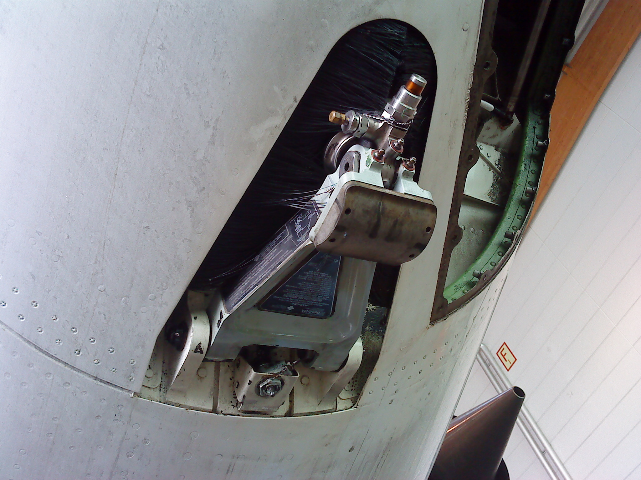 Tailbumper Bombardier CRJ700